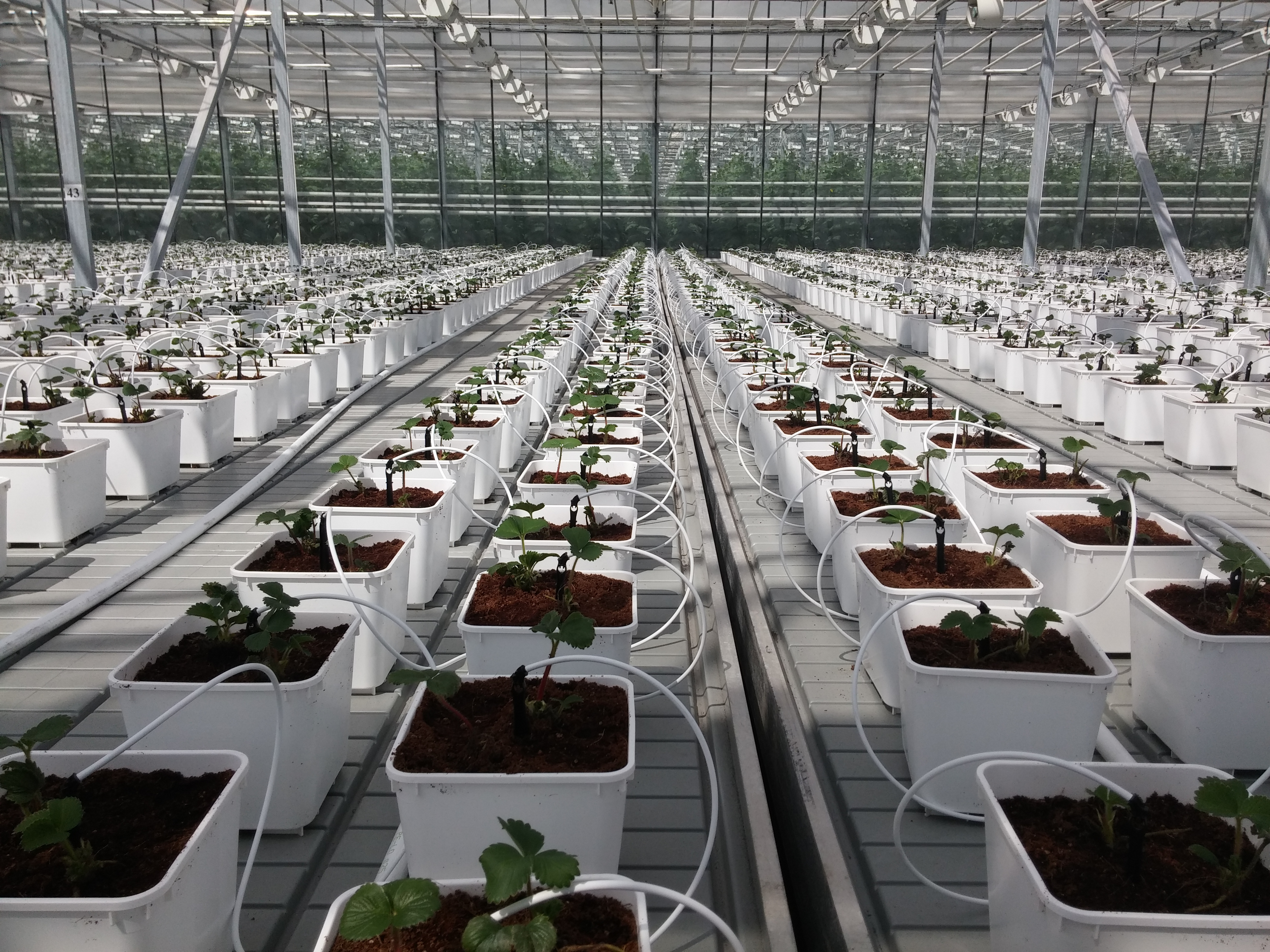 Выращивание клубники ТОО "Тепличные Технологии Казахстана"